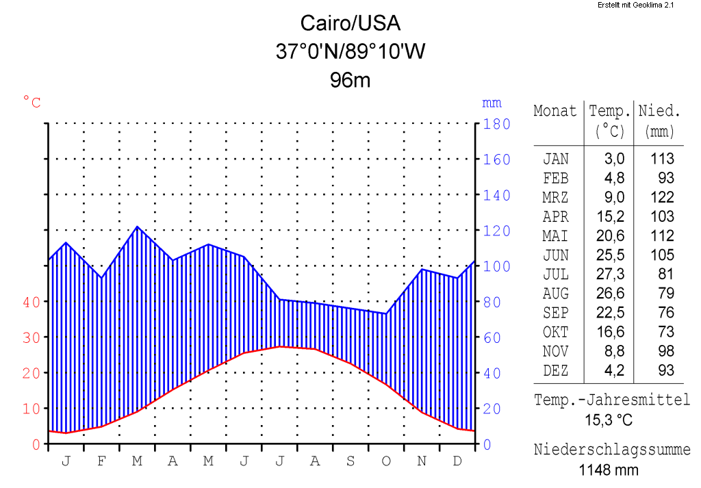 climate chart in the format by Walther and Lieth, metric, °Celsisus and millimeters, made with Geoklima 2.1